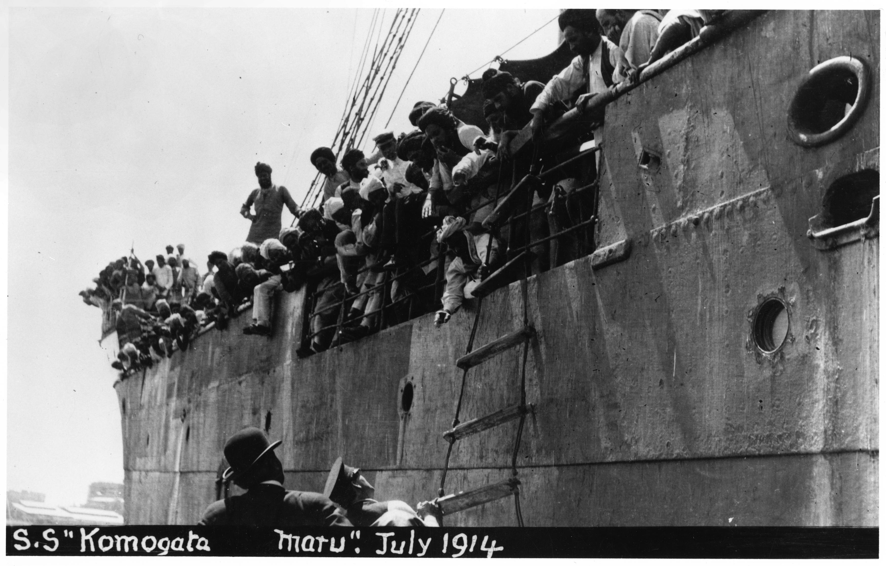 Sikh people on board the Komagata Maru Ship VPL Accession Number: 13157 Date: July 1914 Photographer/Studio: Unknown SUBJECTS:Ships, Komagata Maru Incident, 1914, East Indians, East Indian Canadians, Sikhs, Sikh Canadians Location: British Columbia - Vancouver Harbour More information on our historical photograph collection